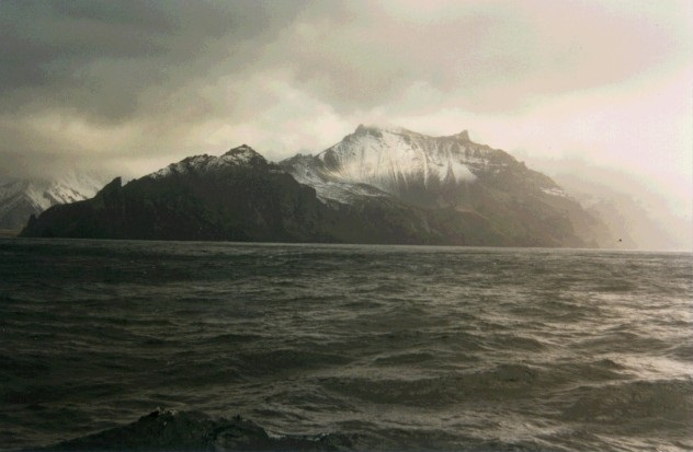 One of the Crozet Islands, French Southern and Antarctic Lands.